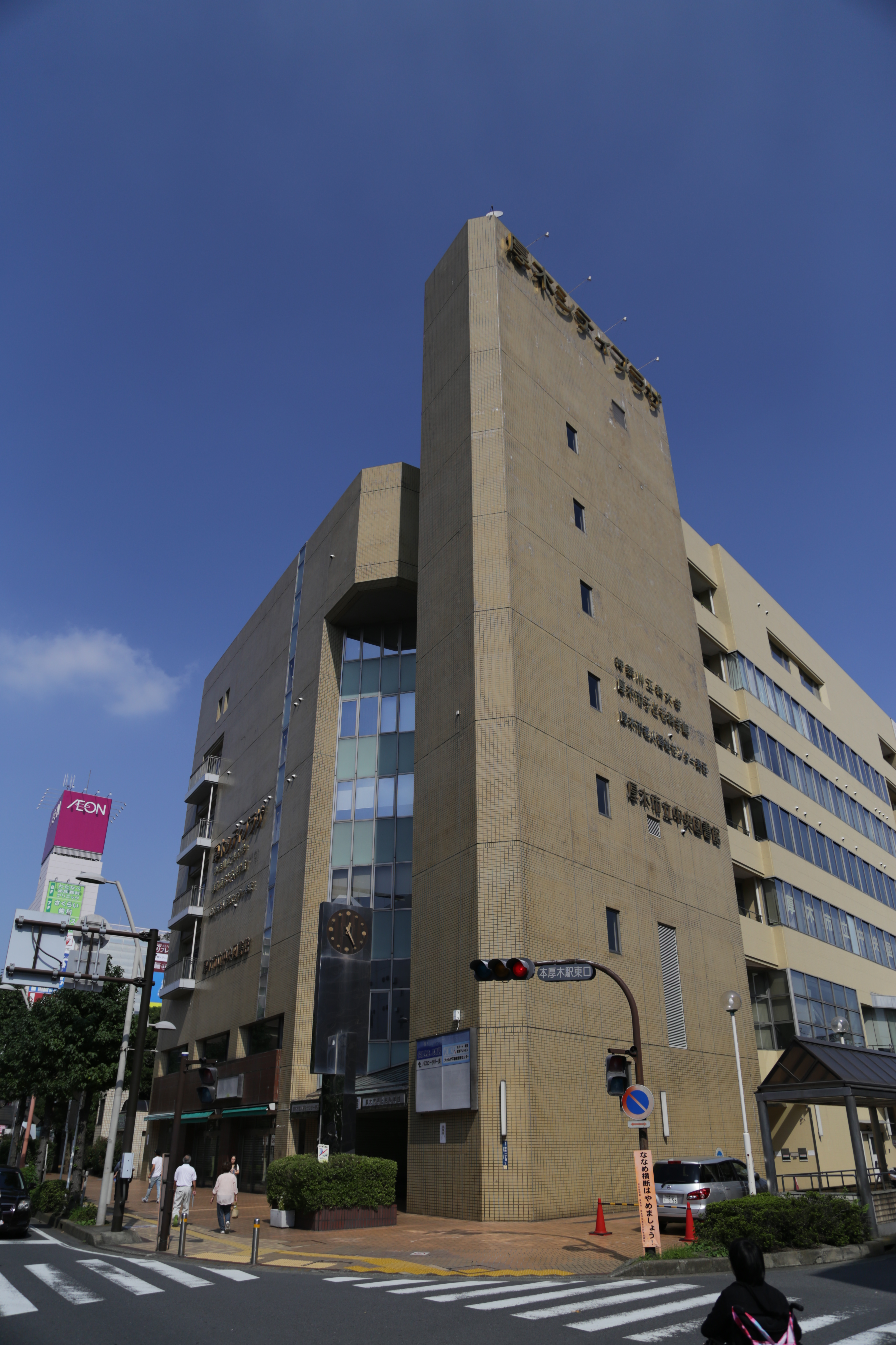 Atsugi city plaza